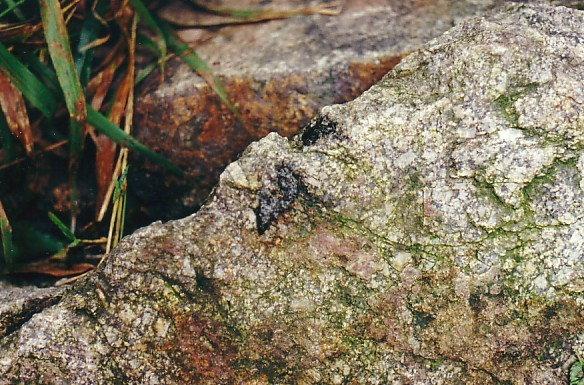 Spraint